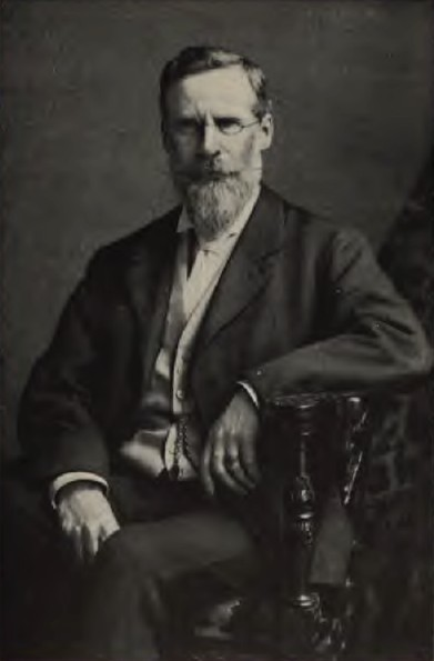 William Crookes (1832–1919)